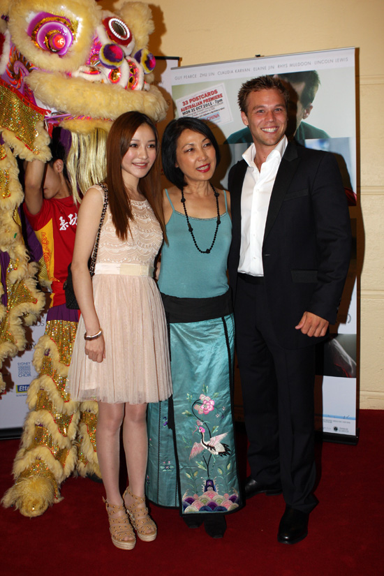 L to R: Zhu Lin, Pauline Chan (Australian actress) and Lincoln Lewis attend the 33 Postcards Movie Premiere at The Ritz Cinema, Randwick, Sydney